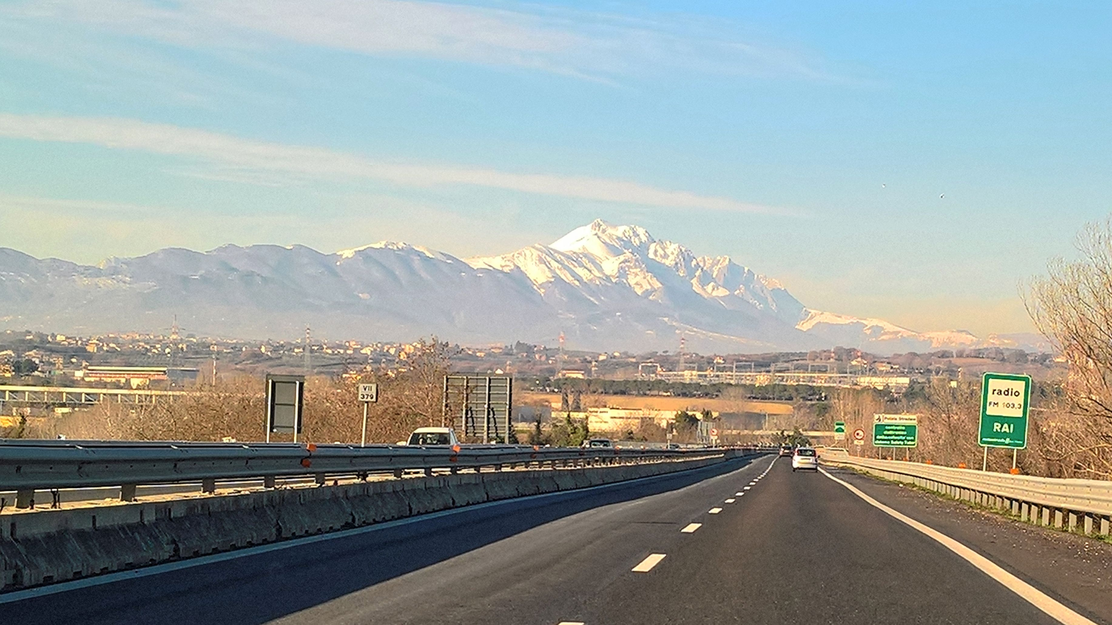 Italy Mix 2018